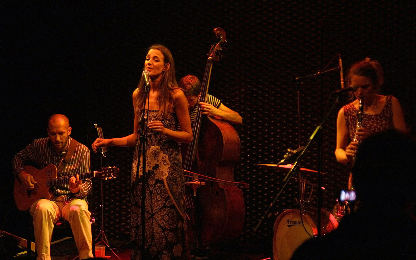 Katika - concert at the cultural center WUK in Vienna.